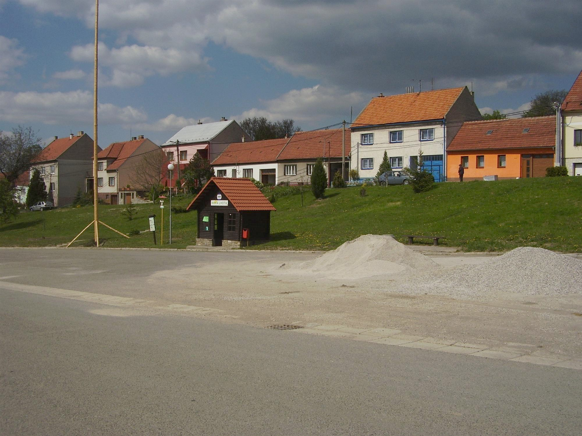 Square with bus stop in village Nová Lhota